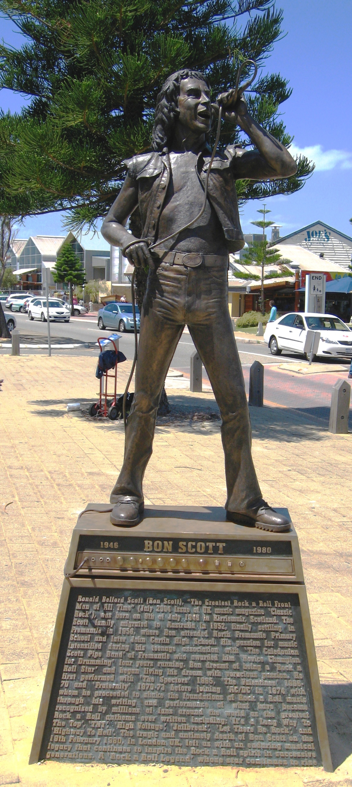 Statue of Bon Scott by Greg James. Fisherman's Wharf, Fremantle, Western Australia.